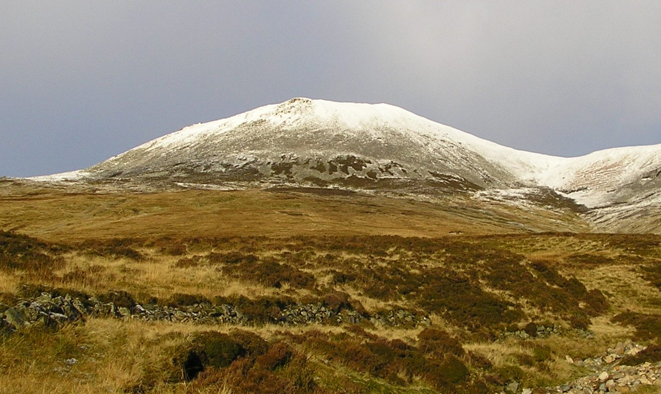 Carn a' Chlamain in the Scottish Highlands.